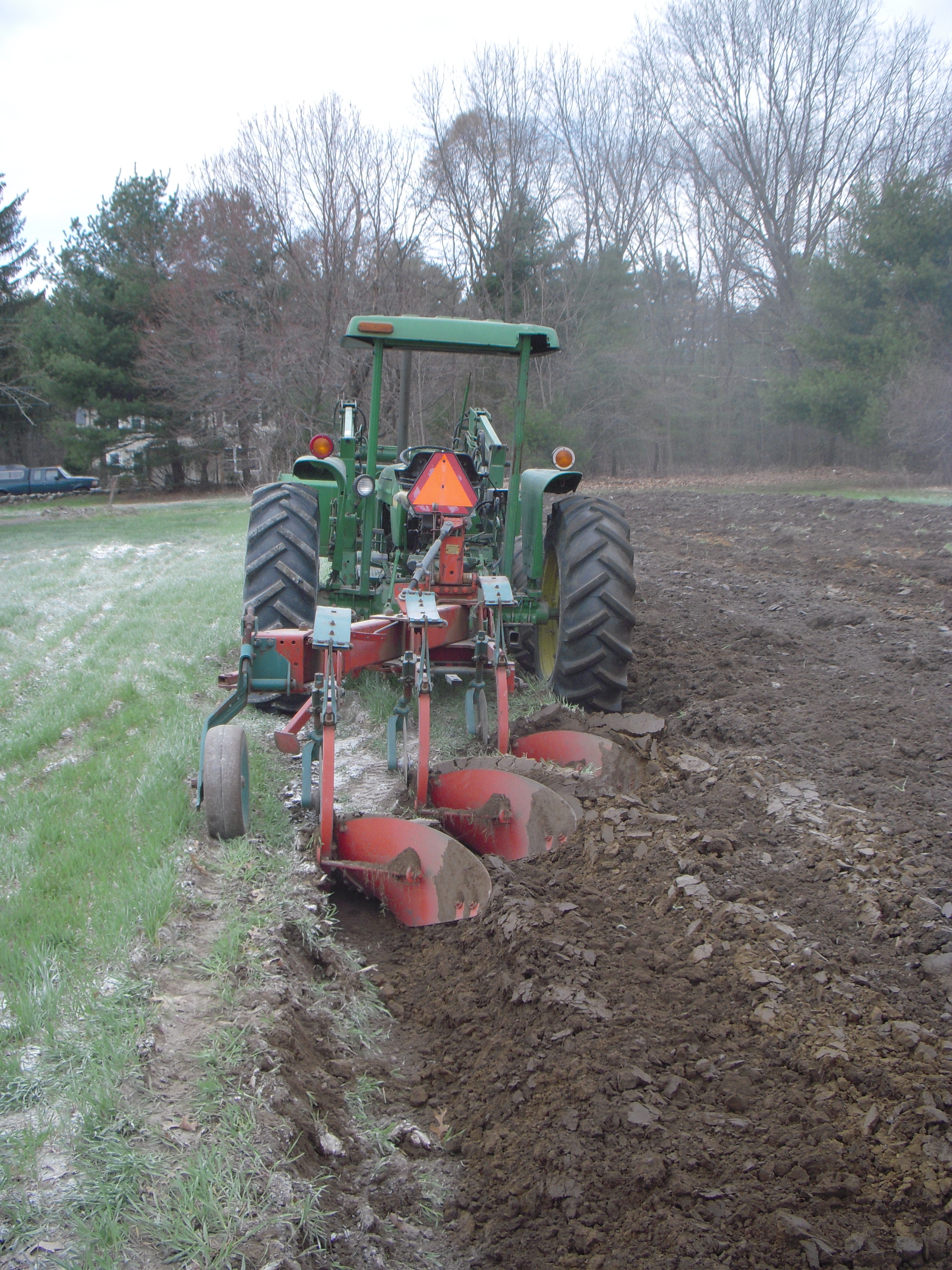 Kverneland AB 85 3-furrow plough pulled by a John Deere tractor at a farm in Massachusetts, USA. – The lime has been spread on the field so now it's time to plow. This is a 3 bottom plow. There are 3 plows spaced so that each one throws the soil into the furrow left by the previous plow.